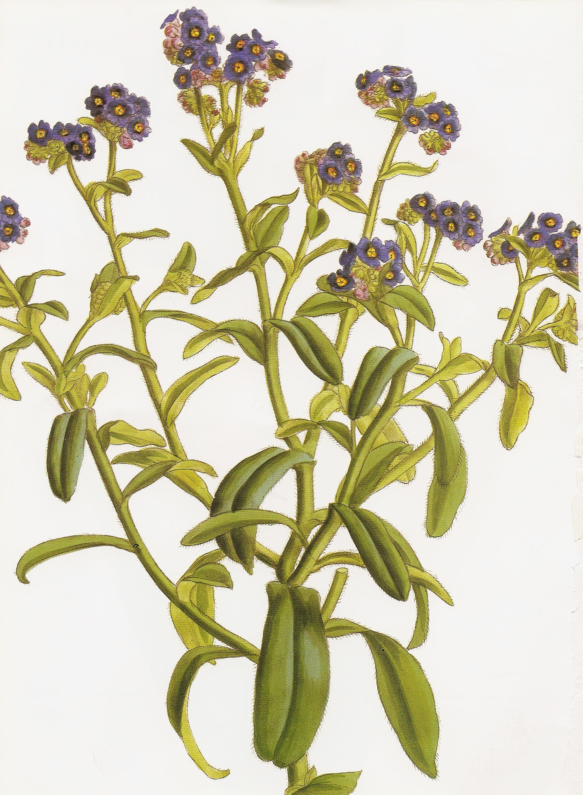 Myosotis azorica, the Azorean Forget-me-not, a hand-retouched chromolithograph by Louis-Aristide-Léon Constans (fl. 1830s-1860s), plate 97 from the third volume of Paxton's Flower Garden (1852-1853) by John Lindley and Jospeh Paxton